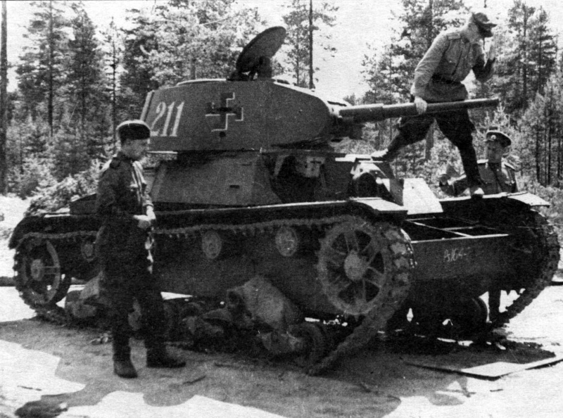 Soviet officers inspected the abandoned Finnish T-26 tank